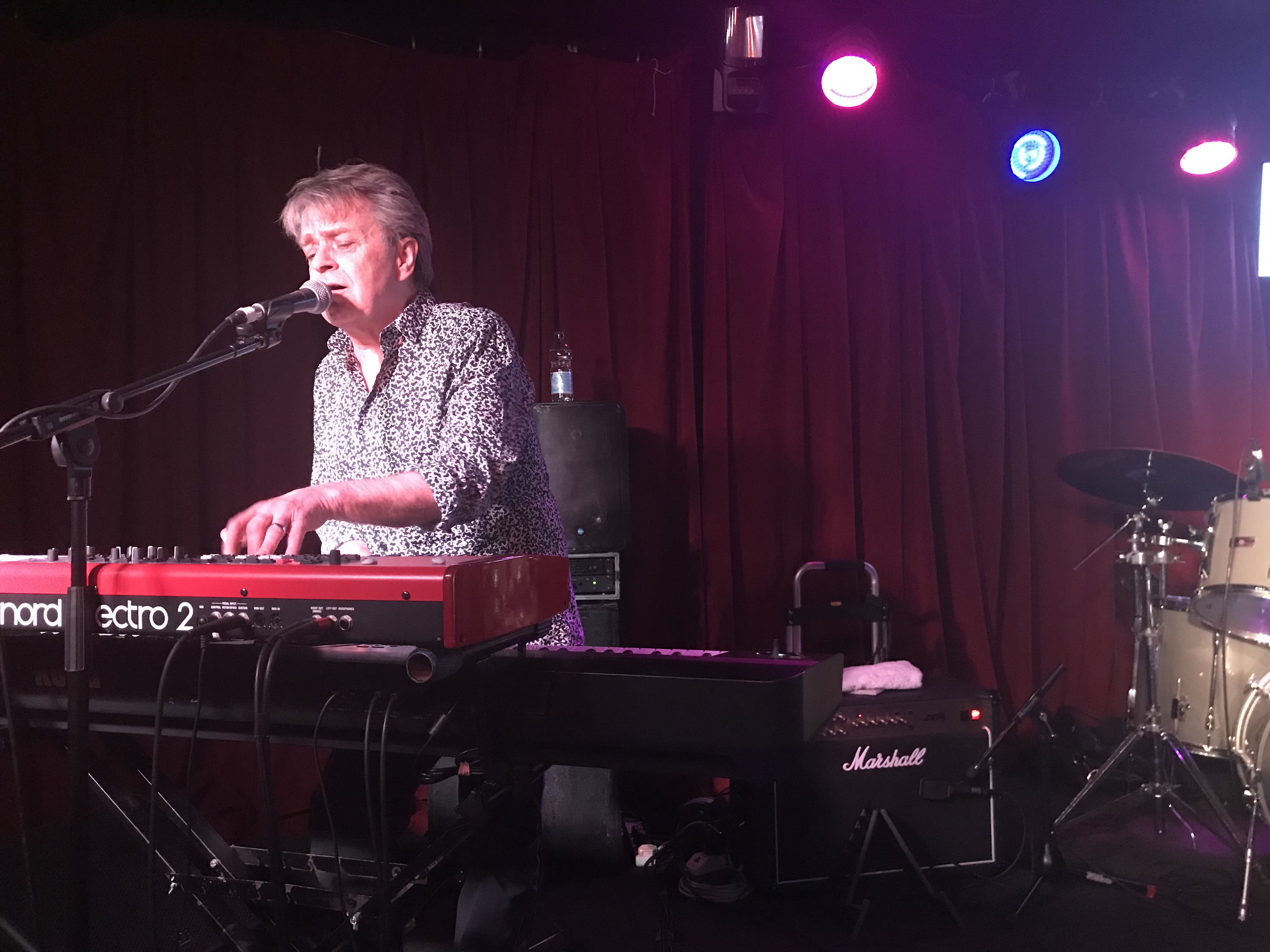 Ian Gibbons at the Half Moon, Putney, December 2018